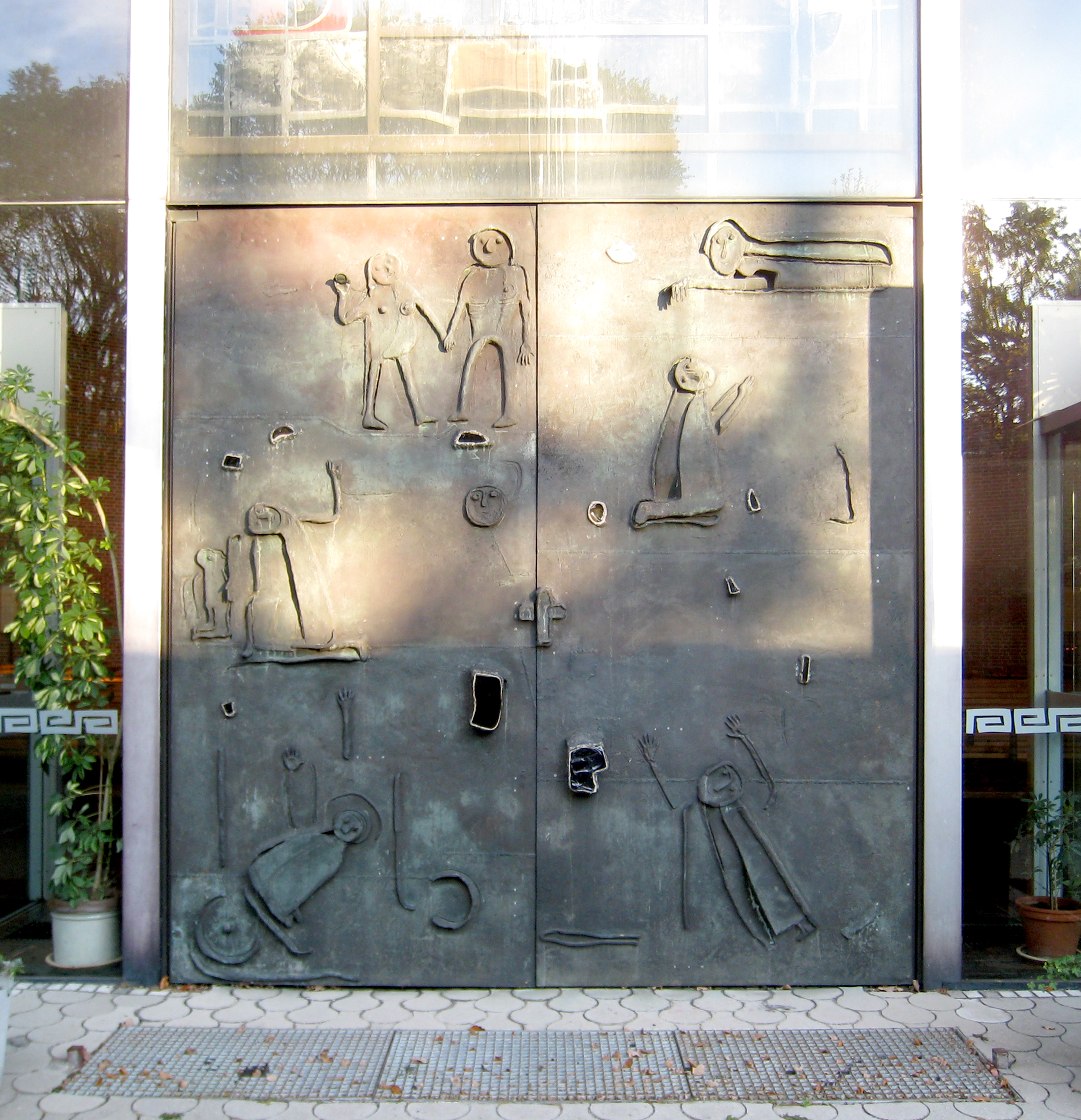 Entrance of the St. Johann von Capistran Church in Munich Bogenhausen, Bavaria, Germany. The door which shows people of the bible was created by Heinrich Kirchner.